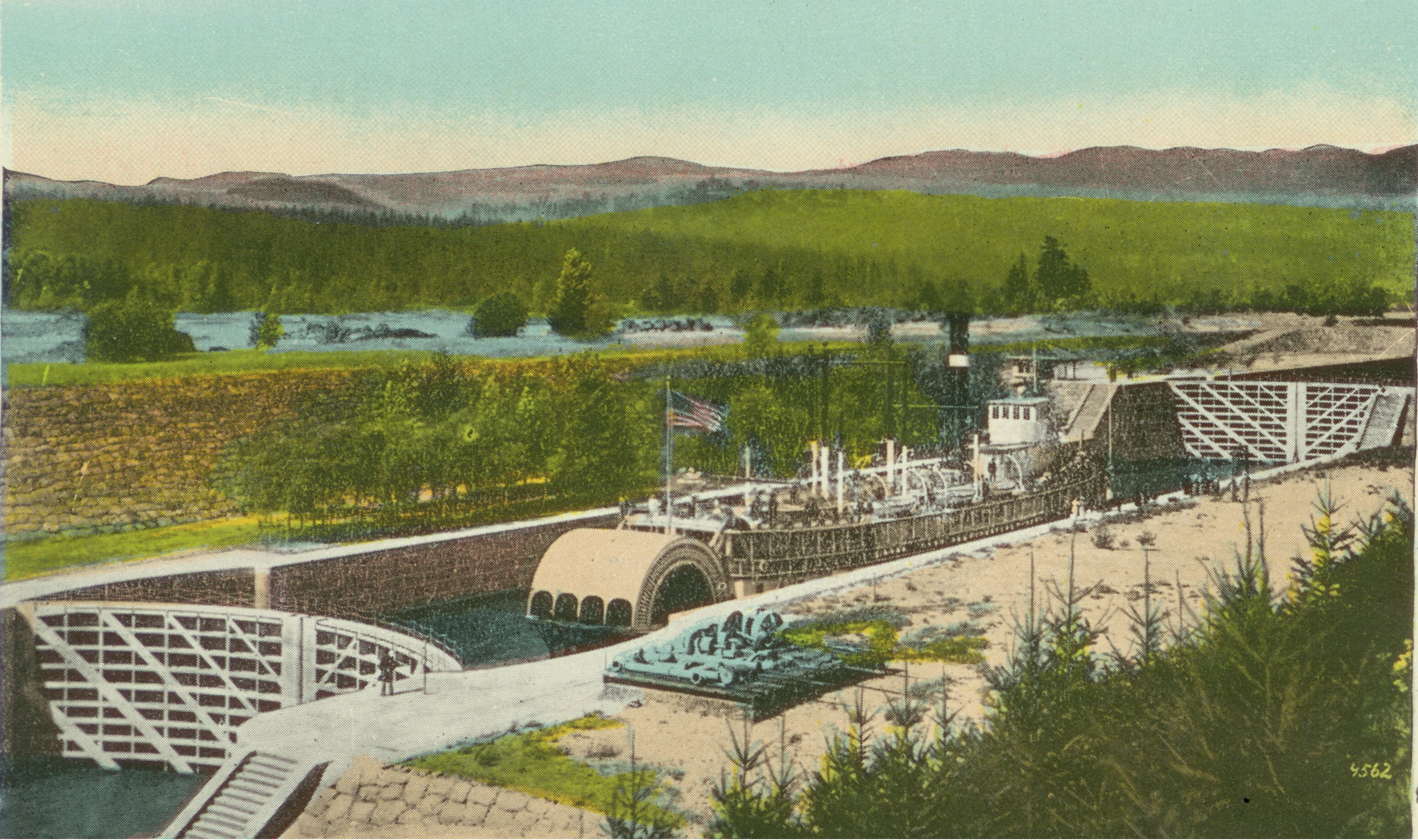 Scan of colorized photo postcard. No copyright notice, back of card is consistent with pre-1920 era, and steamboat shown (Bailey Gatzert) was taken off this route in 1917.